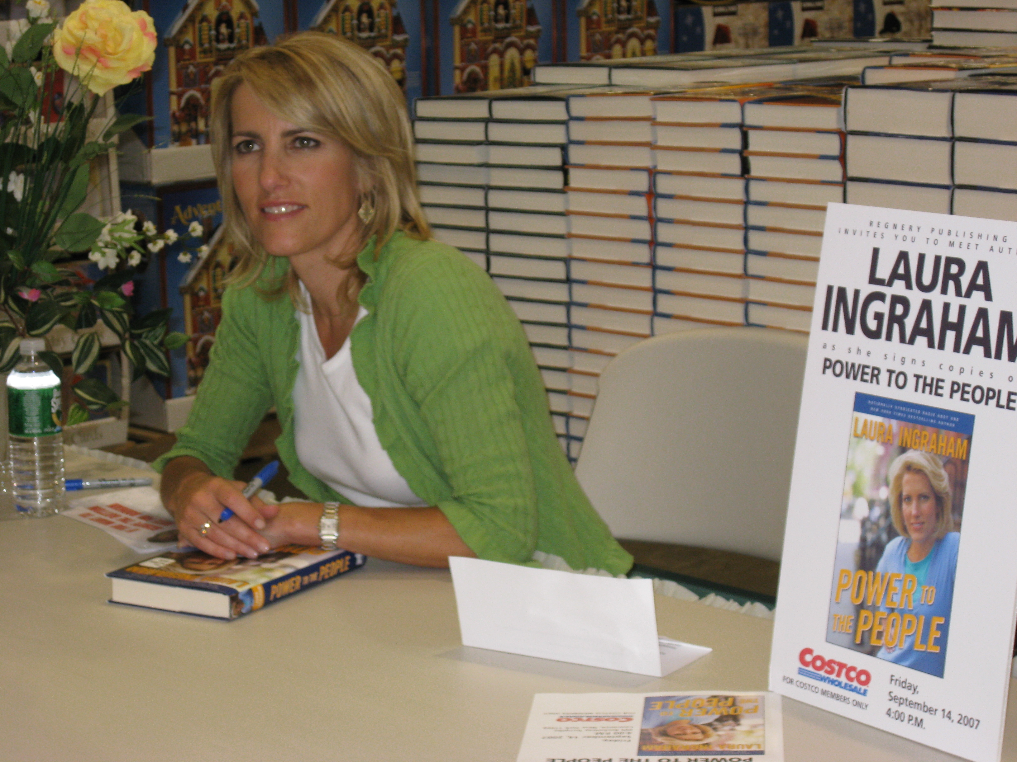 Laura Ingraham signs her new book, Power To The People at the Lawrence, NY Costco.